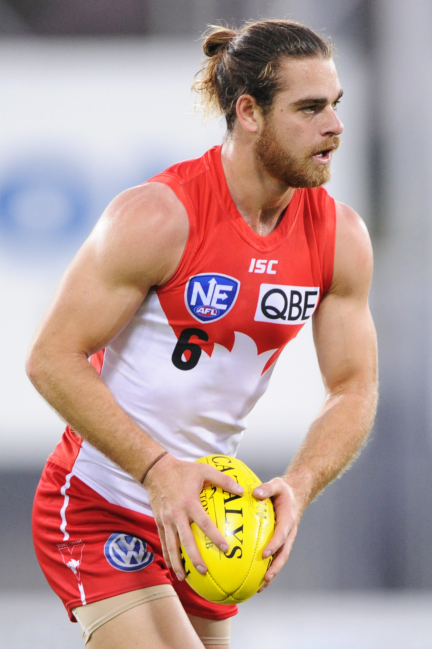 Jordan Foote of Sydney during the 2018 NEAFL round 15 match between NT Thunder and Sydney at TIO Stadium on Saturday, 14 July 2018 in Darwin, Northern Territory.